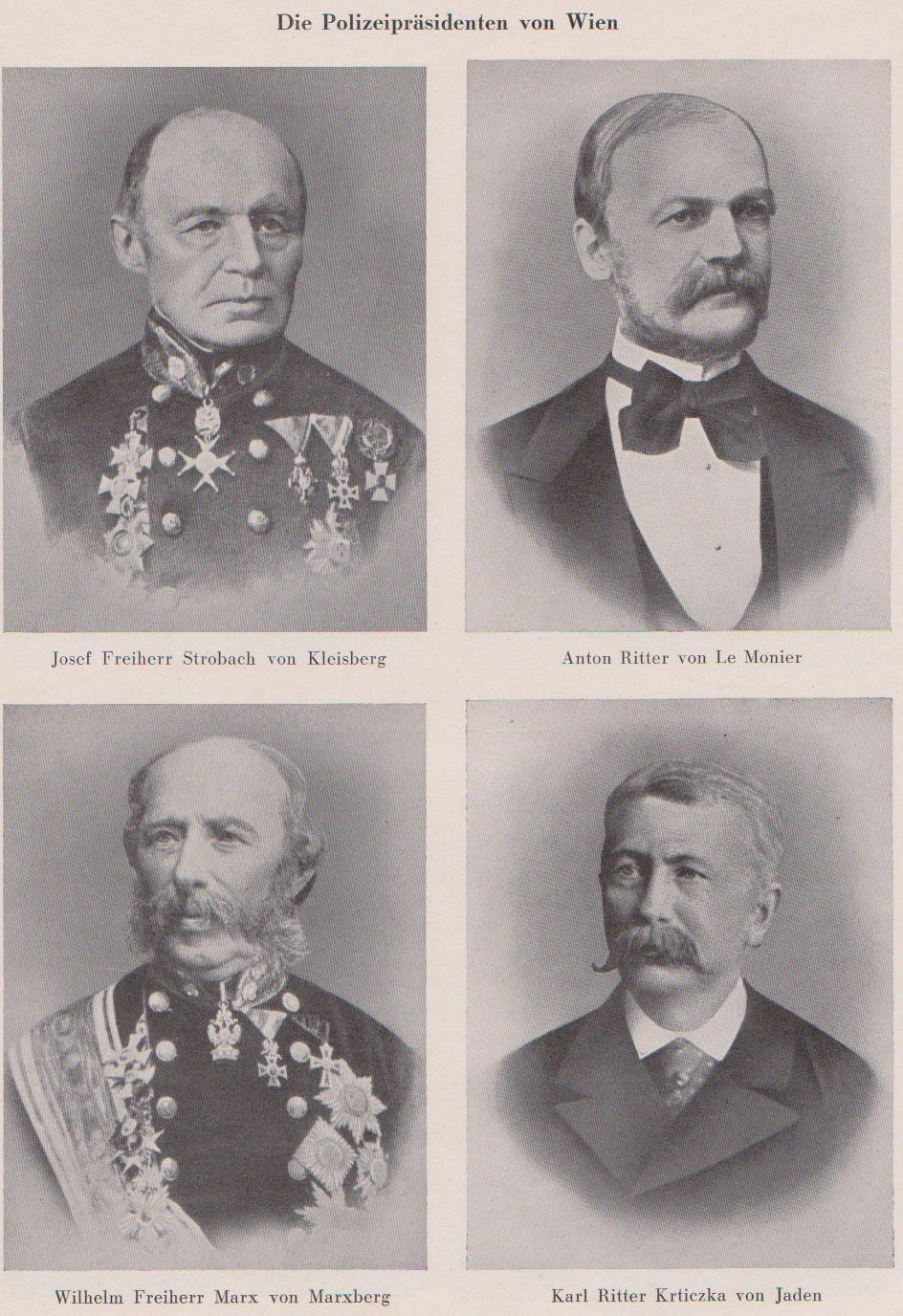 Portrait photos of Josef Strobach, Anton Le Monier, Wilhelm Marx and Karl Krticzka, chief executives of the I.R. Police in Vienna between 1860 and 1885, printed on p. 37 of the source mentioned